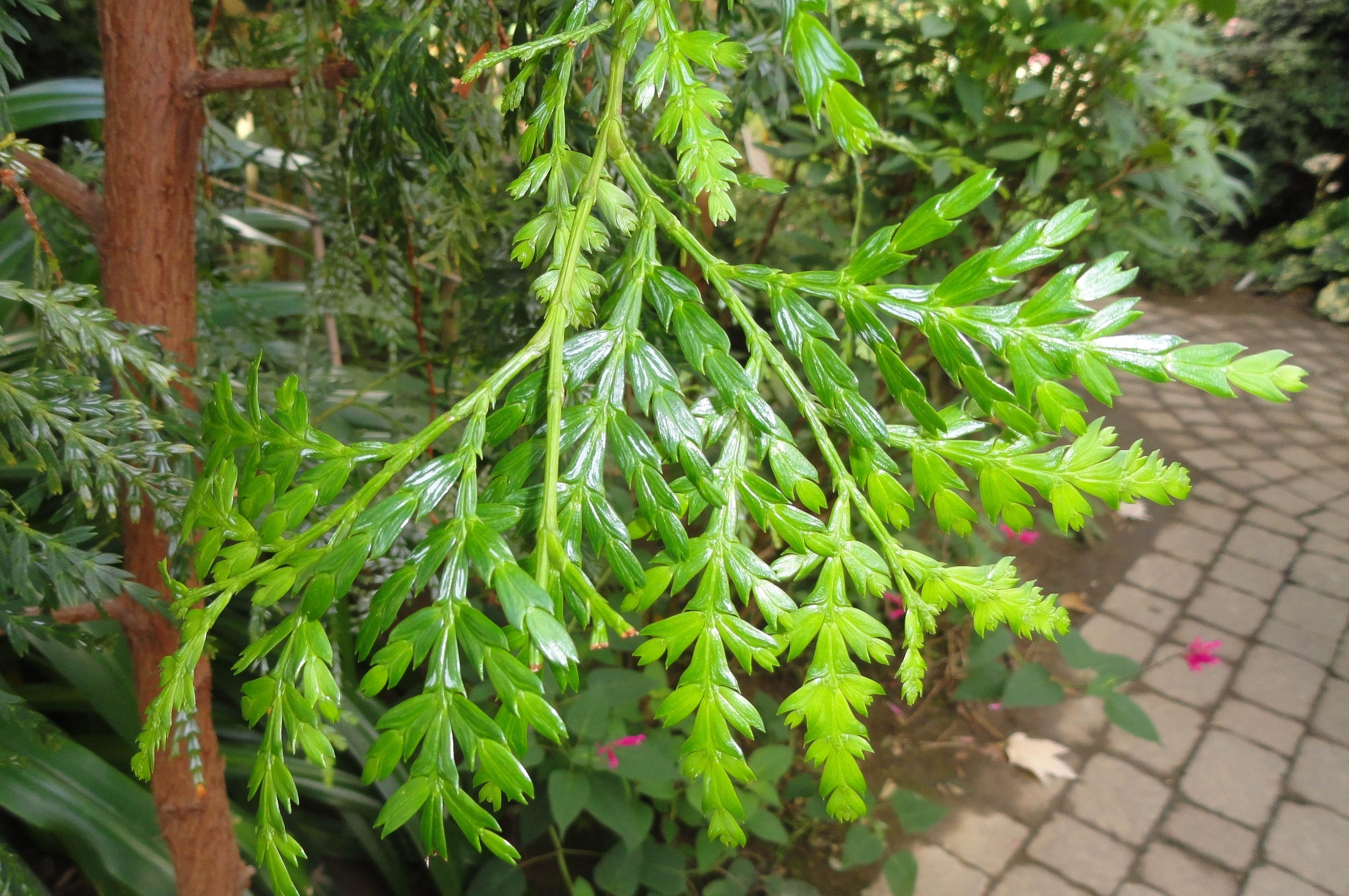 Botanical specimen in the Lyman Plant House, Smith College, Northampton, Massachusetts, USA.